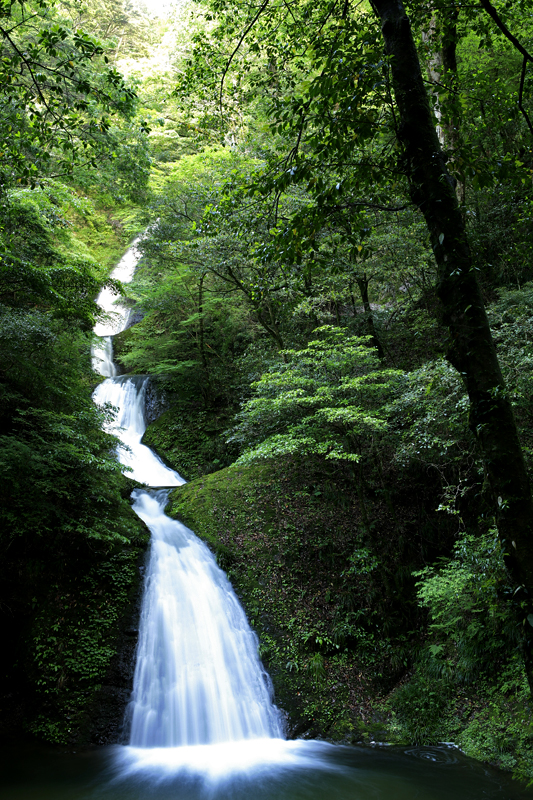 Atera Nana Falls (Atera-no-nana-taki) in Shinshiro, Aichi Prefecture, Japan.